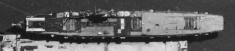 The German aircraft carrier Graf Zeppelin photographed on 6 February 1942 at Gotenhafen (today Gdynia, Poland) by a British Royal Air Force aircraft.